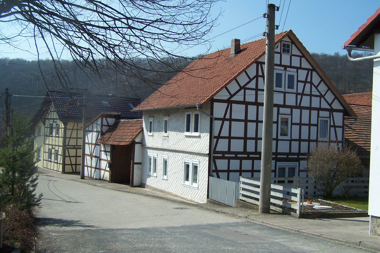 In Ebenshausen village.